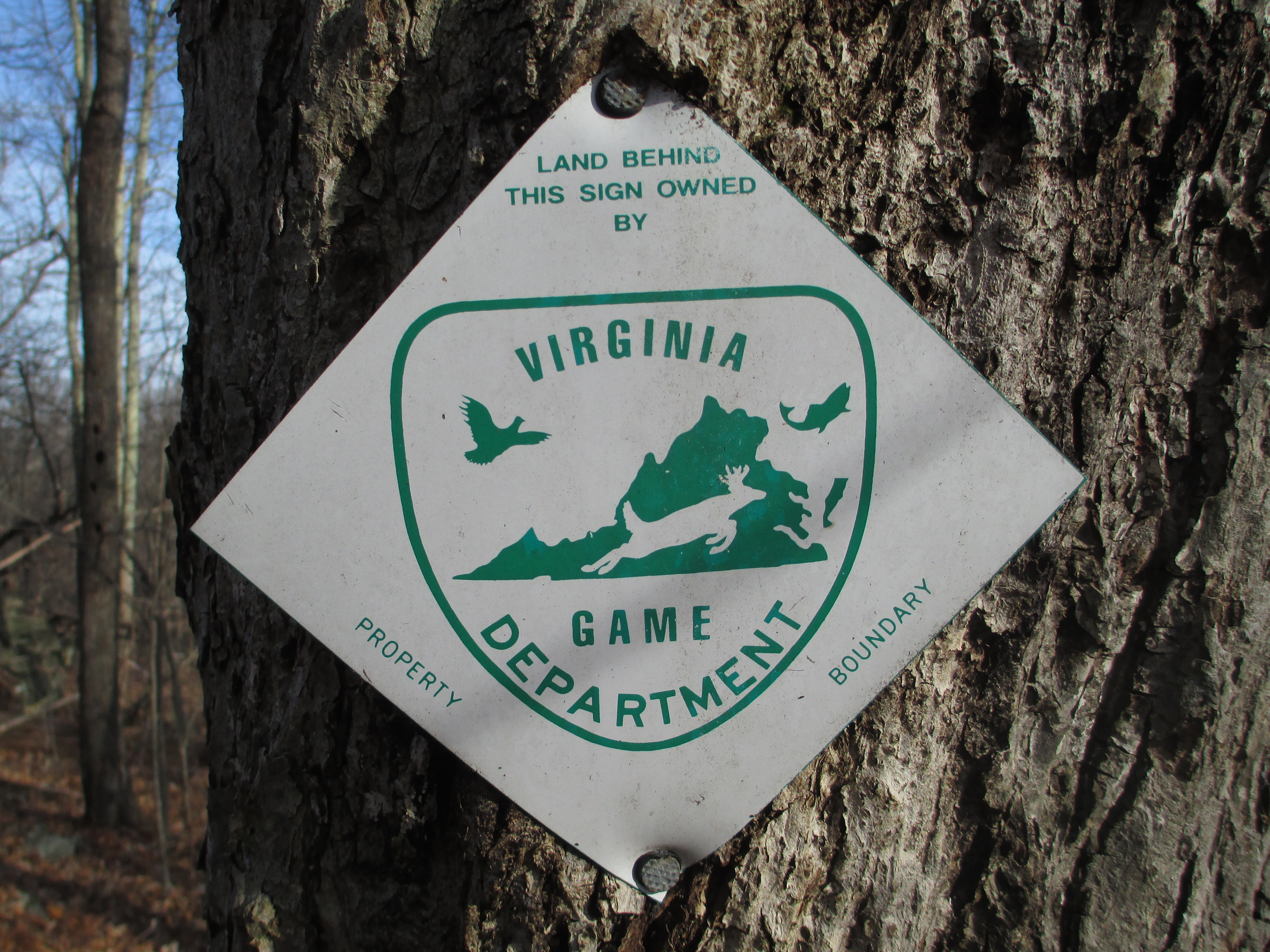 Virginia Wildlife Management Area boundary sign at G. Richard Thompson Wildlife Management Area in Fauquier County, Virginia.